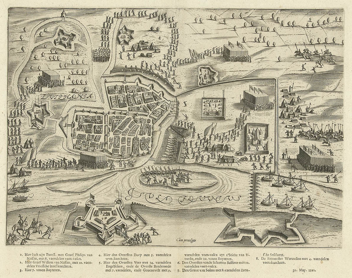 The siege of Zutphen in 1591 by Prince Maurice